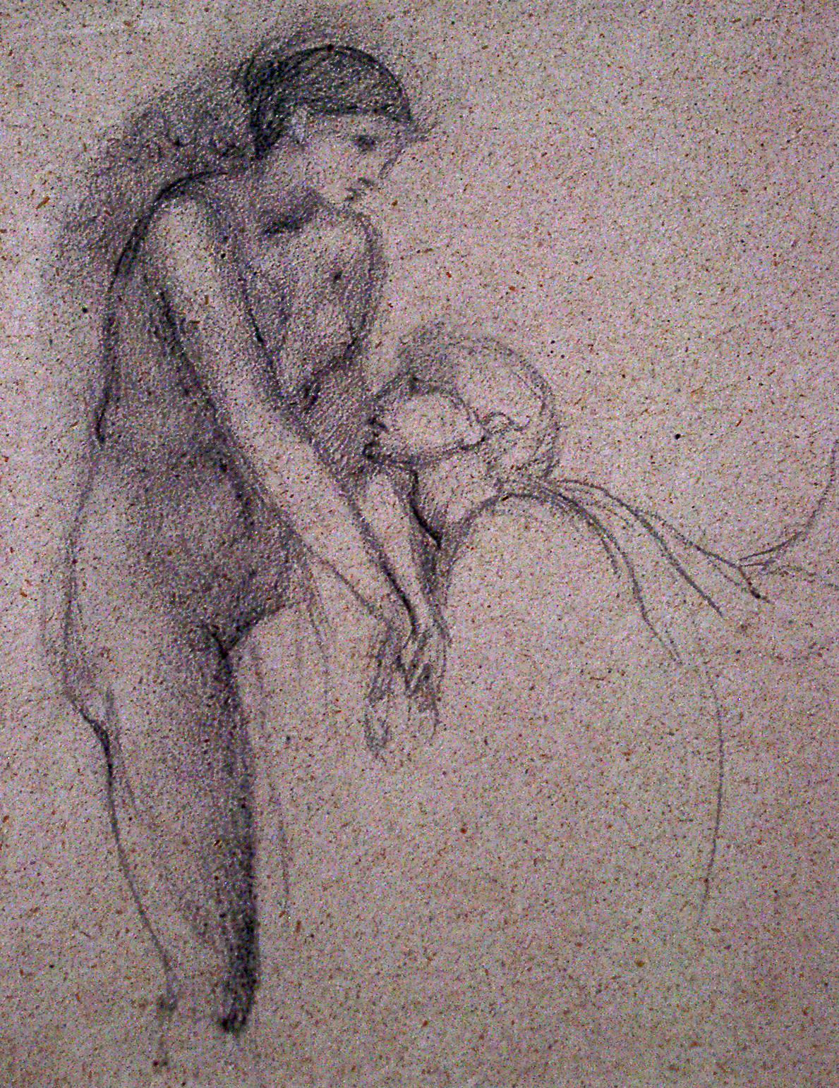 Part of the Garman Ryan Collection.